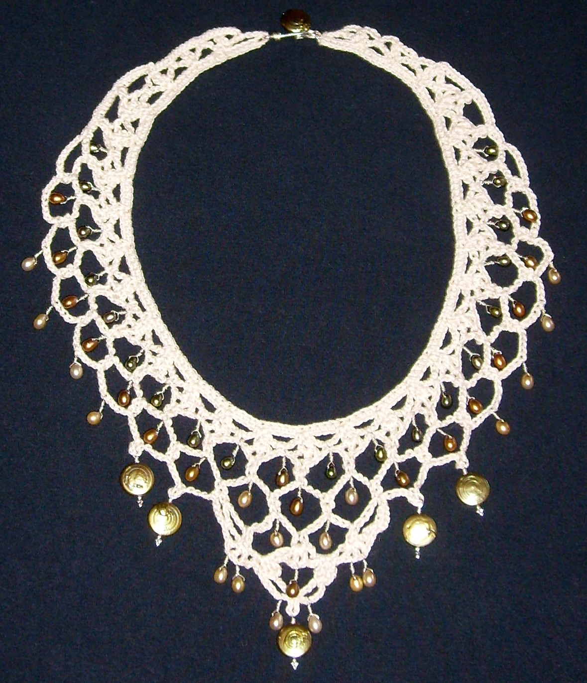 Necklace made from crochet lace, pearls, and sterling silver. Crochet worked in ecru no. 10 mercerized cotton thread. Silver wire in 16 gauge (clasp) and 26 gauge. Freshwater pearls in disc shape (green) and seed shape (green, brown, and champagne). Original design.